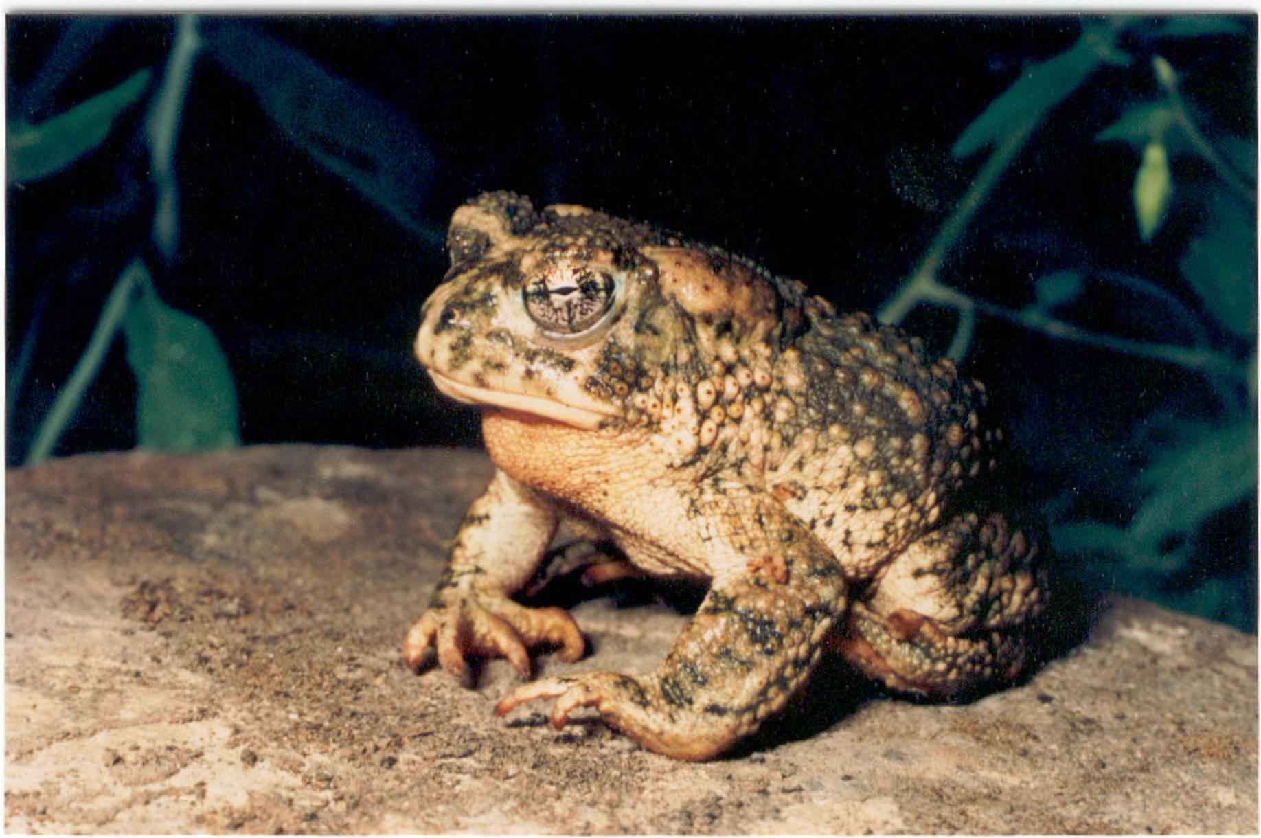 Image title: Anaxyrus californicus Image from Public domain images website